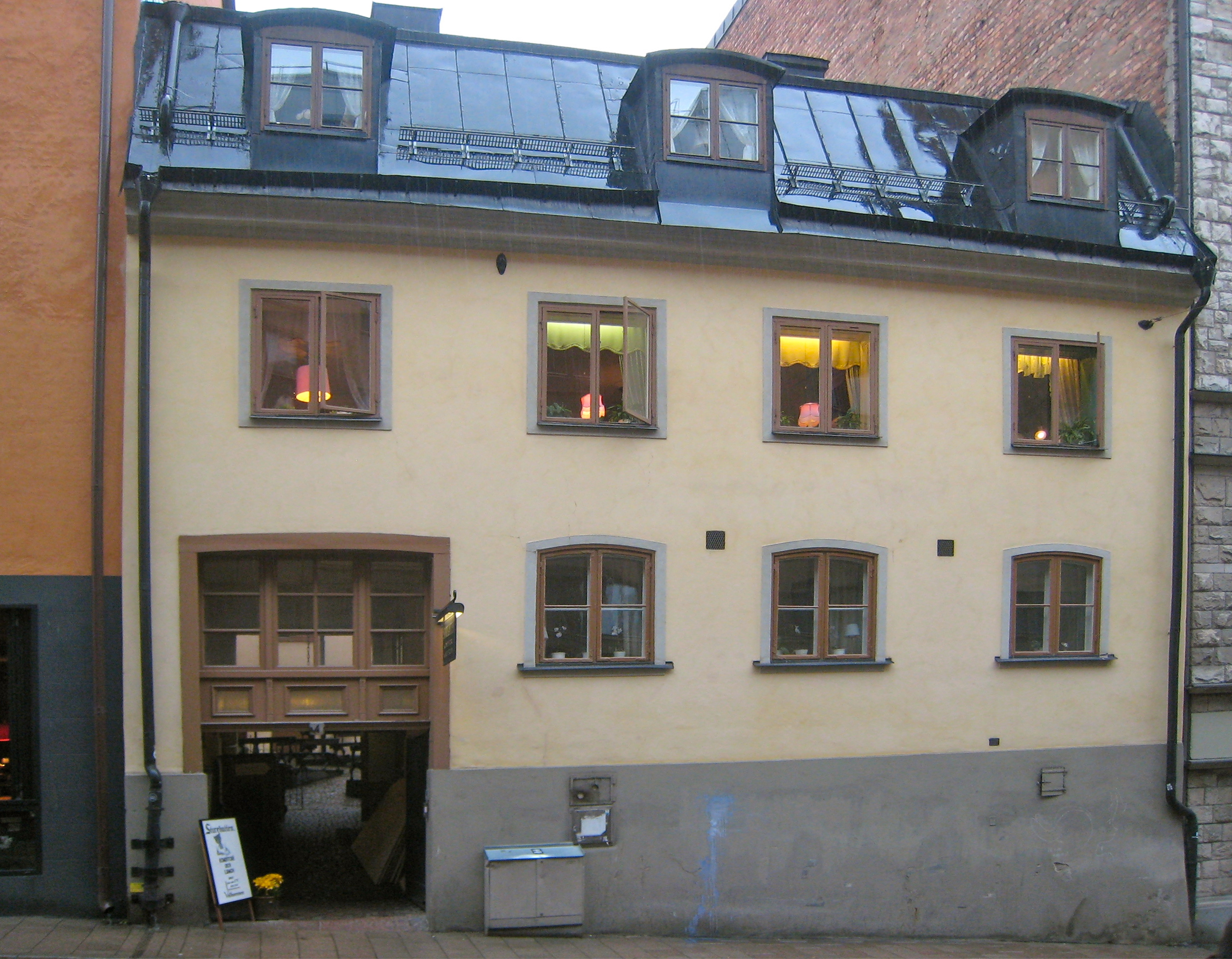 Sturekatten.